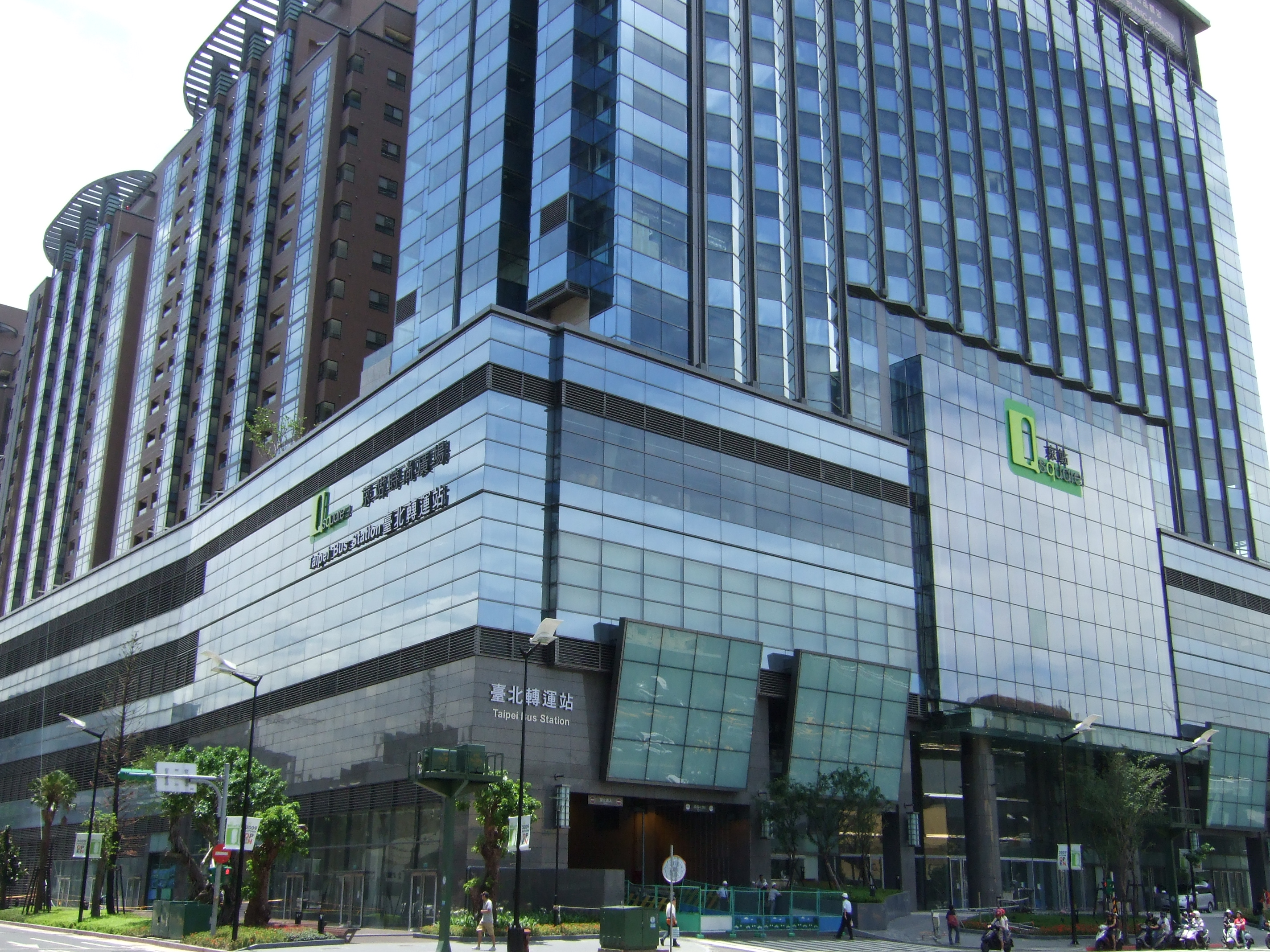 Taipei Bus Station,a bus terminal in Taipei, under construction.